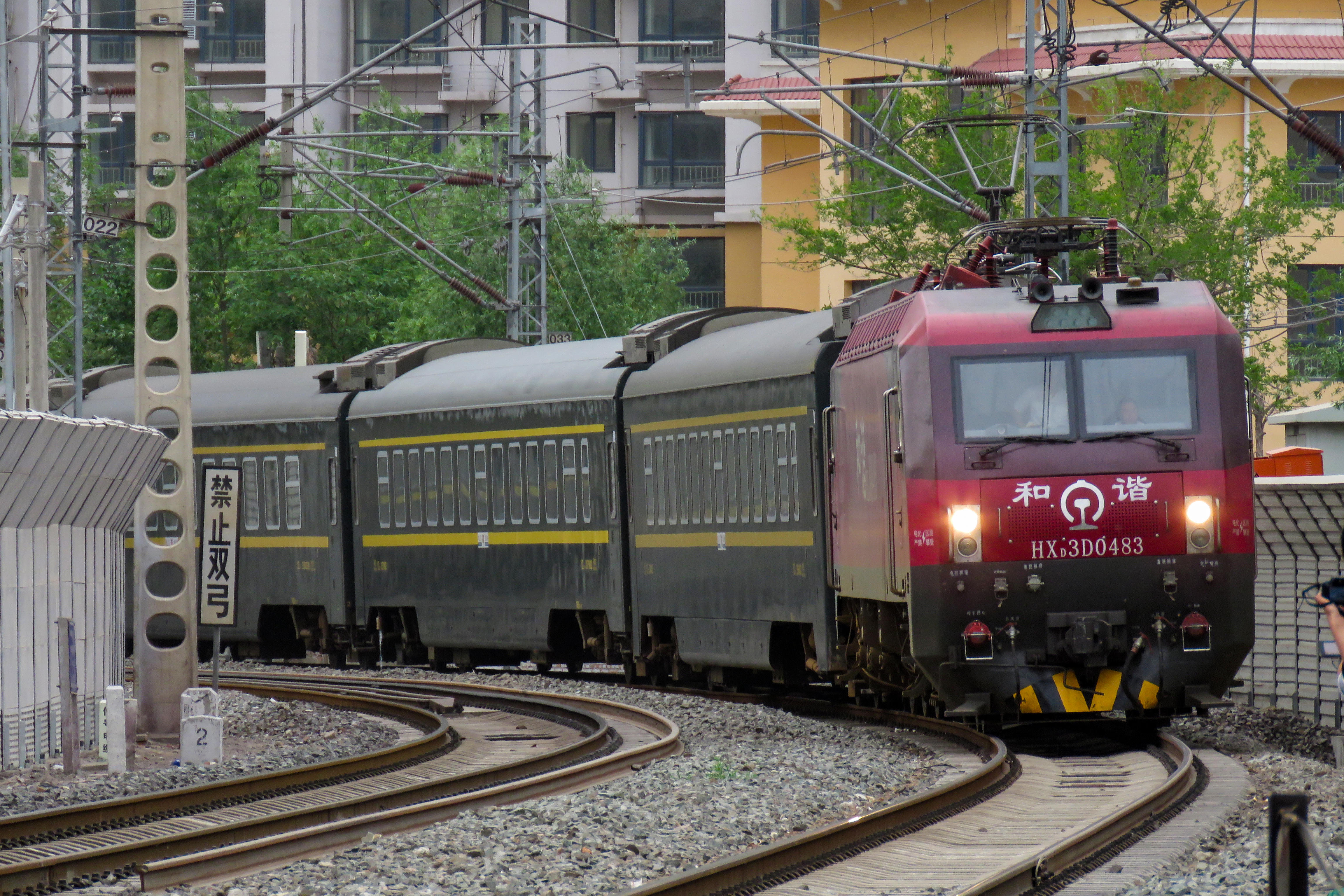 Z307 to Xiamen. This level crossing will be closed on 7 May 2018.